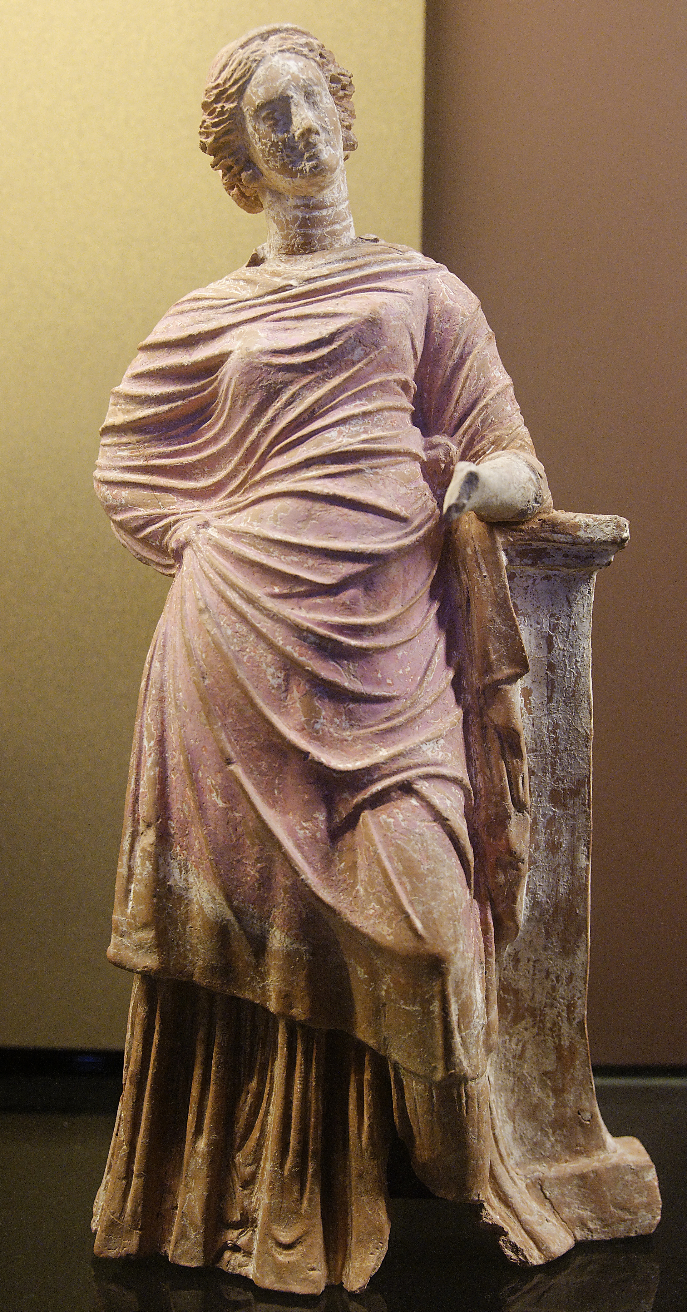 Draped young woman leaning on a pillar. Terracotta figurine, Tanagran artwork, late 3rd century BC–early 2nd century BC. From grave A of the necropolis in Tanagra.